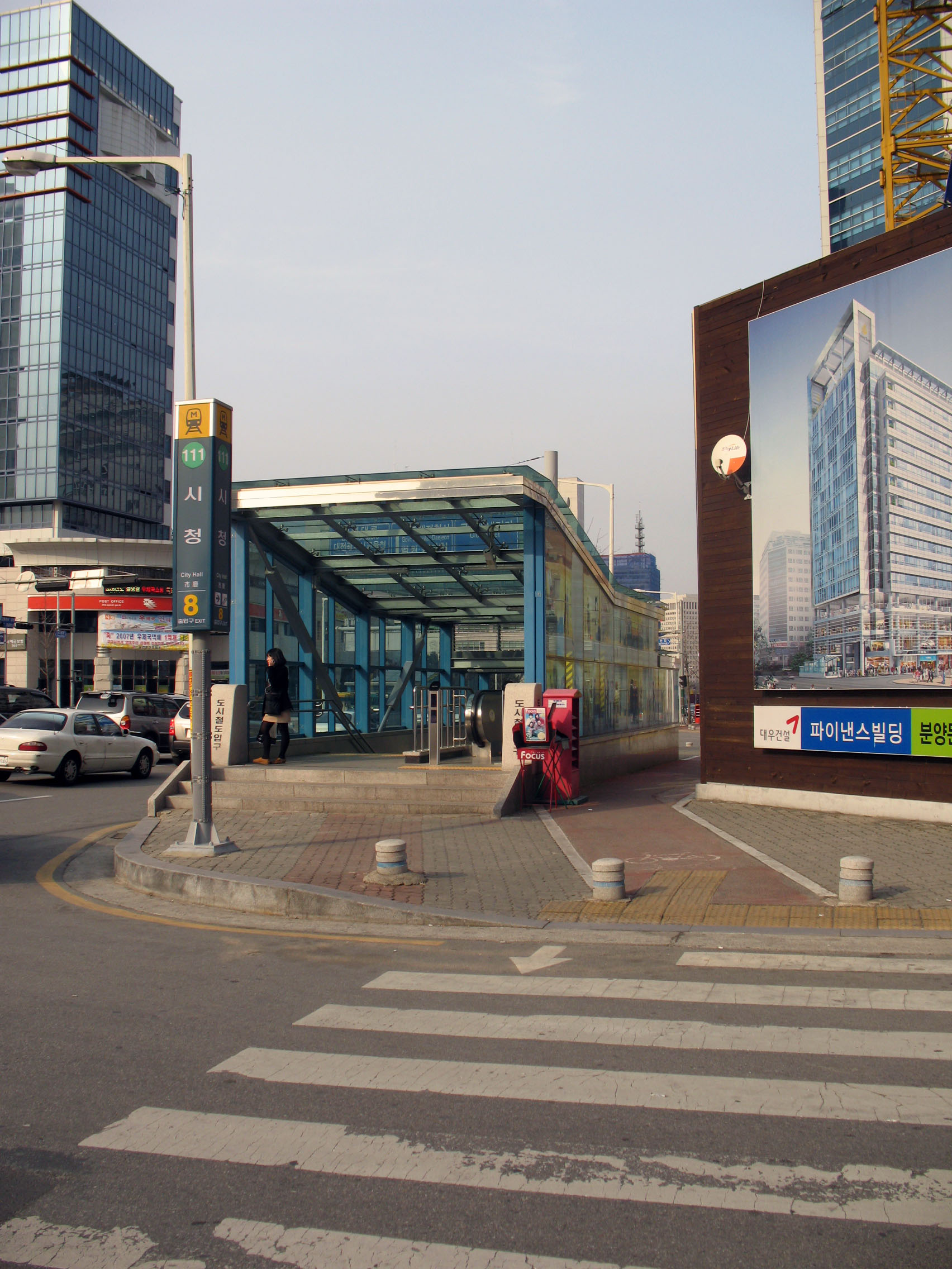 Exit of Daejeon Subway Line 1 City Hall Station.